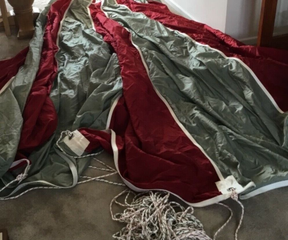 A marine parachute anchor for a large yacht awaiting bagging up